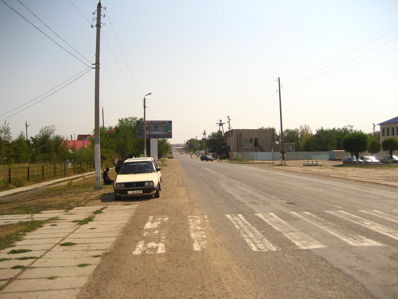 The main street of Taskala in West Kazakstan